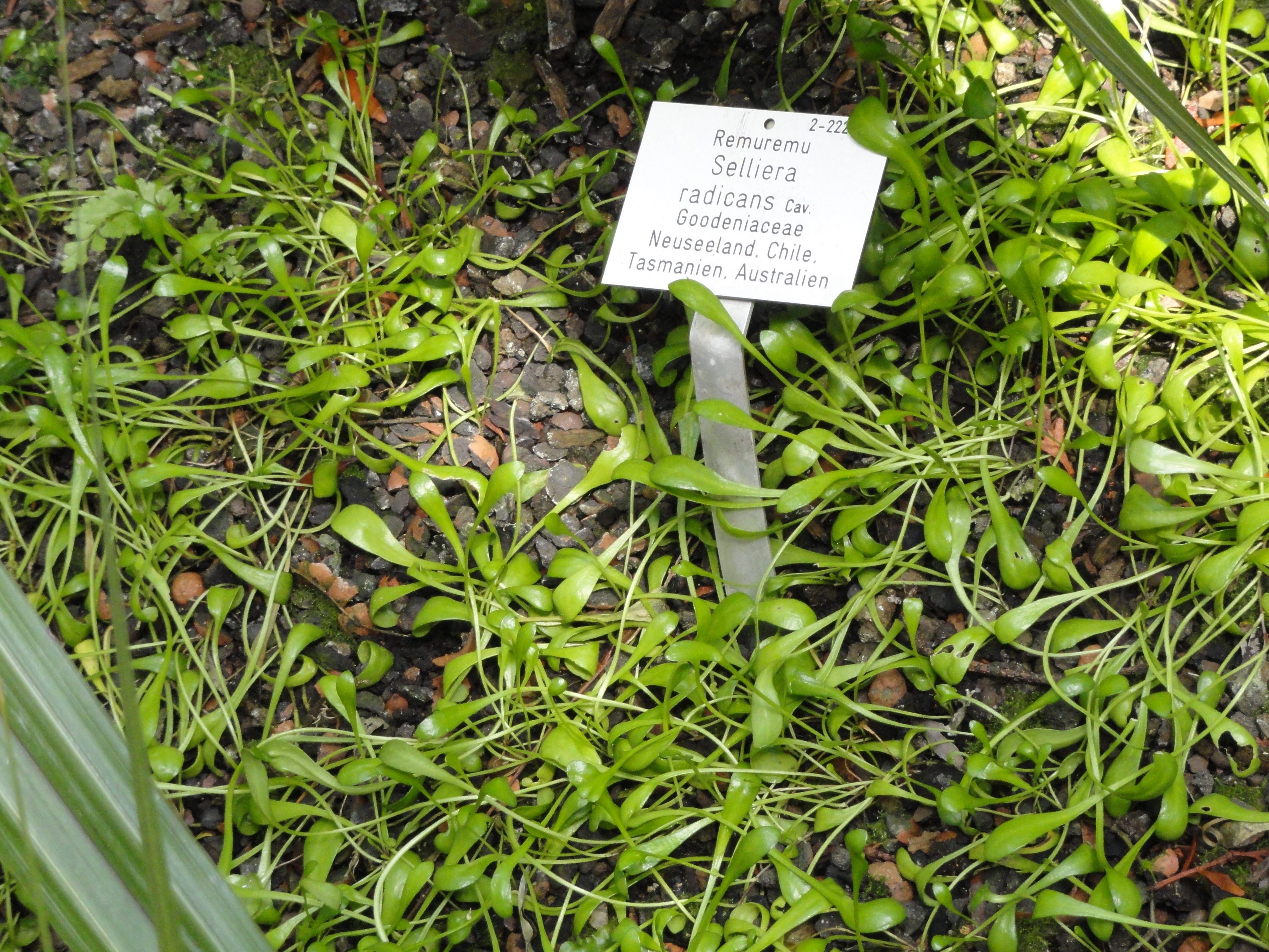 Botanical specimen in the Palmengarten, Frankfurt am Main, Germany.